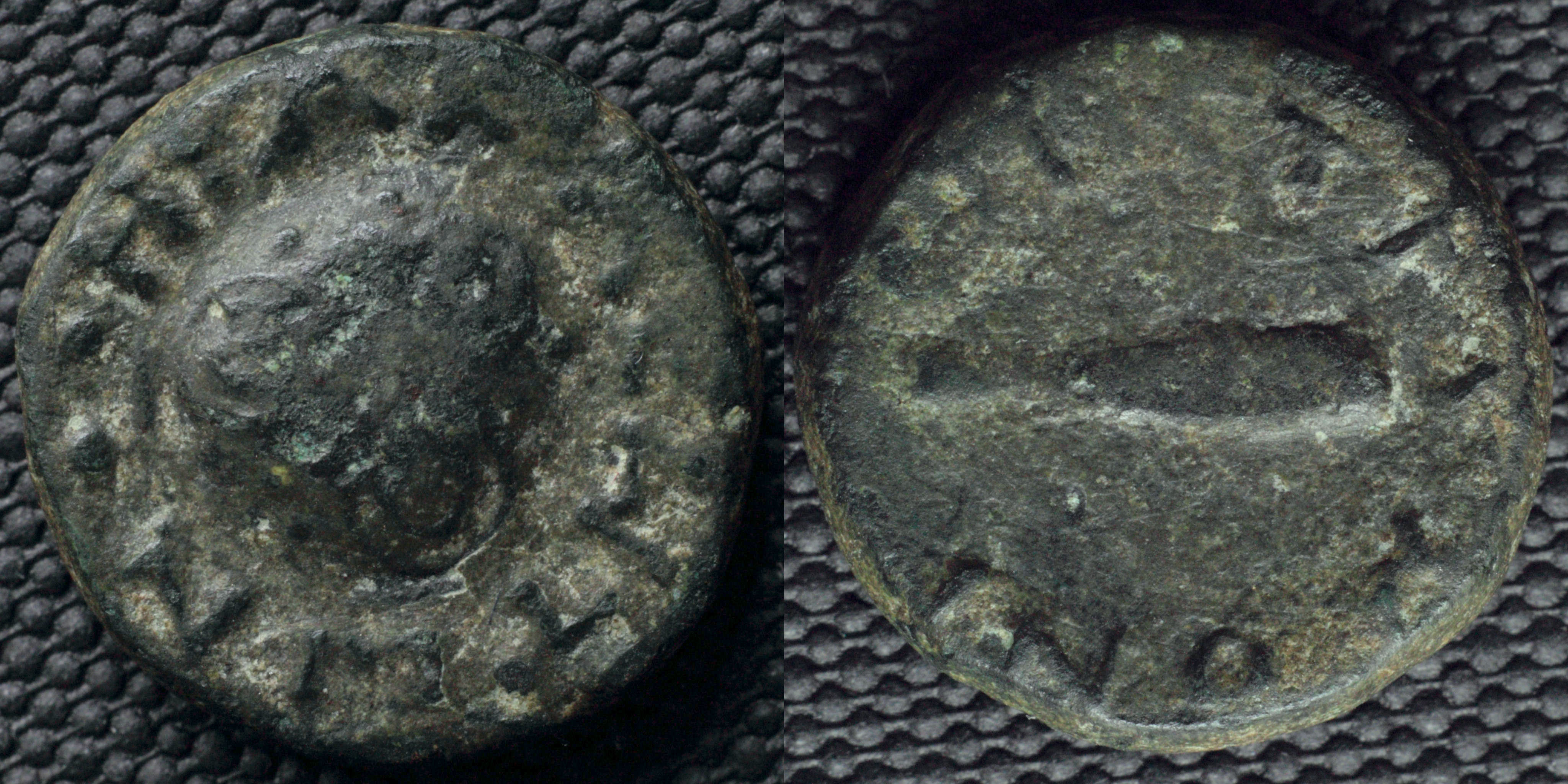 bronze coin from Heracleia Sintike struck in 1st century BC macedonian shield ·HPAKΛEWTWN· club EΠI CTPYMONI SNGCop 185 3,86 g 15 mm